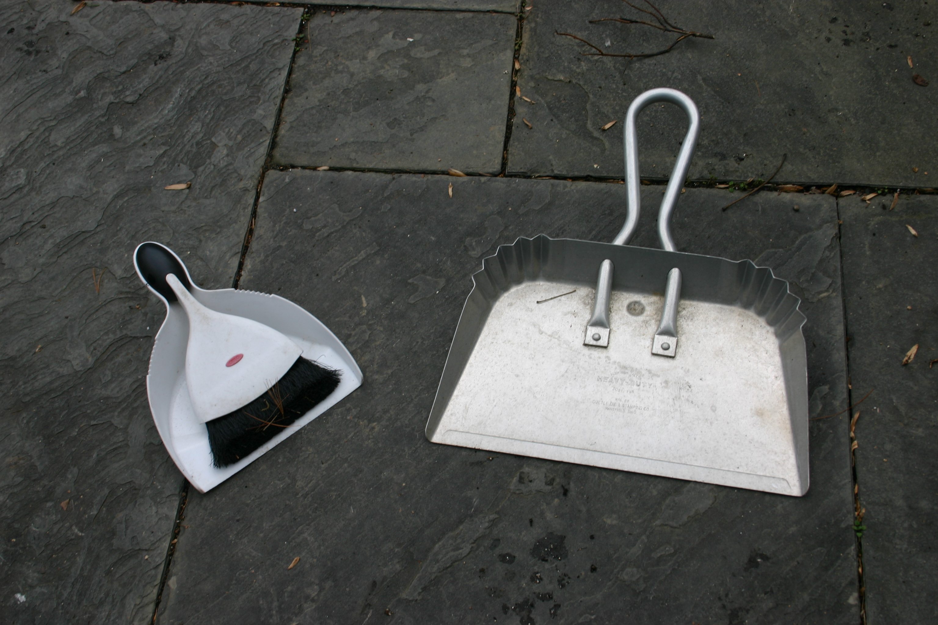 two dustpans